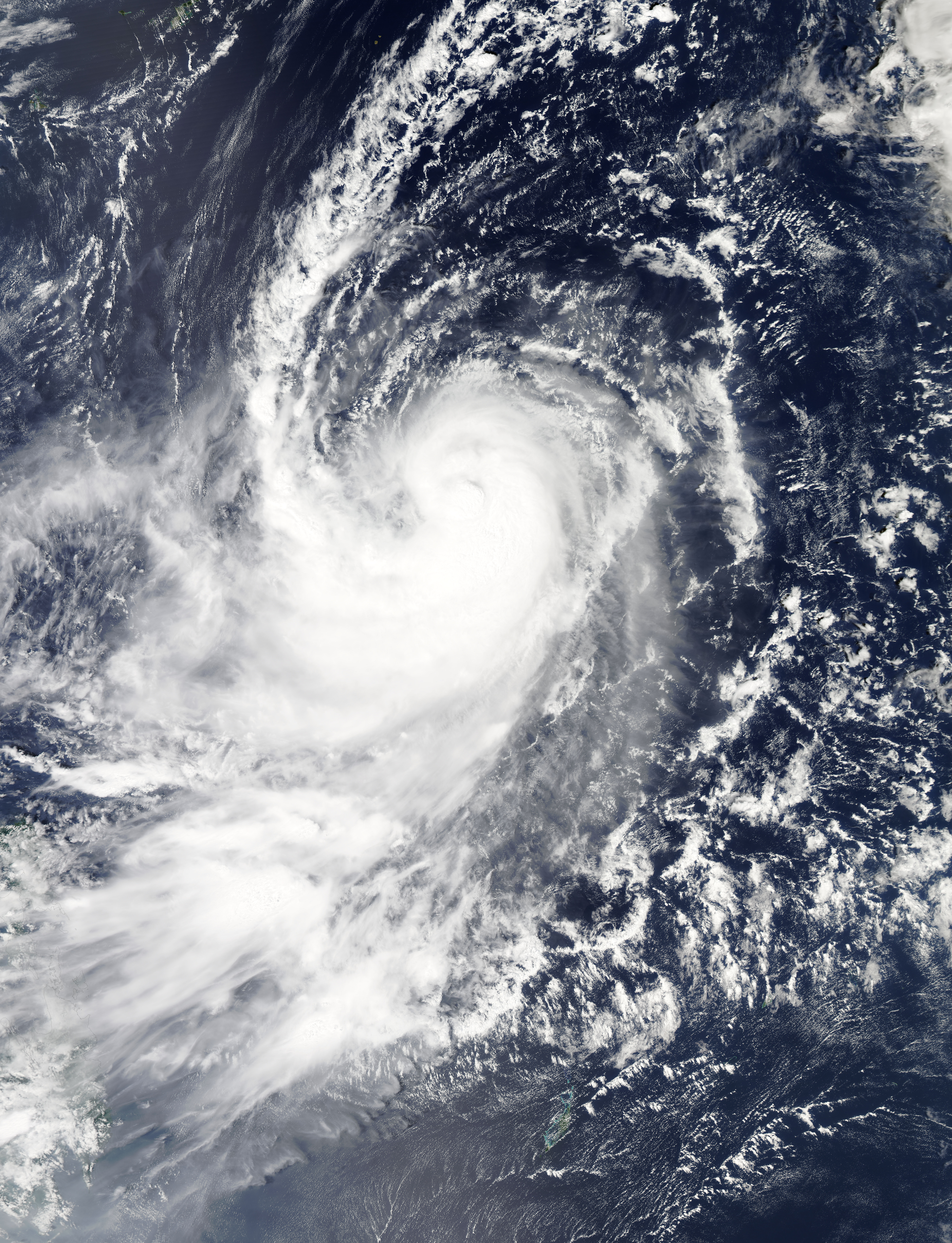 Tropical Storm Dujuan (21W) in the Philippine Sea